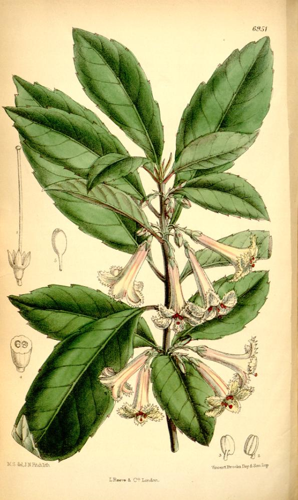 Illustration of Alseuosmia macrophylla